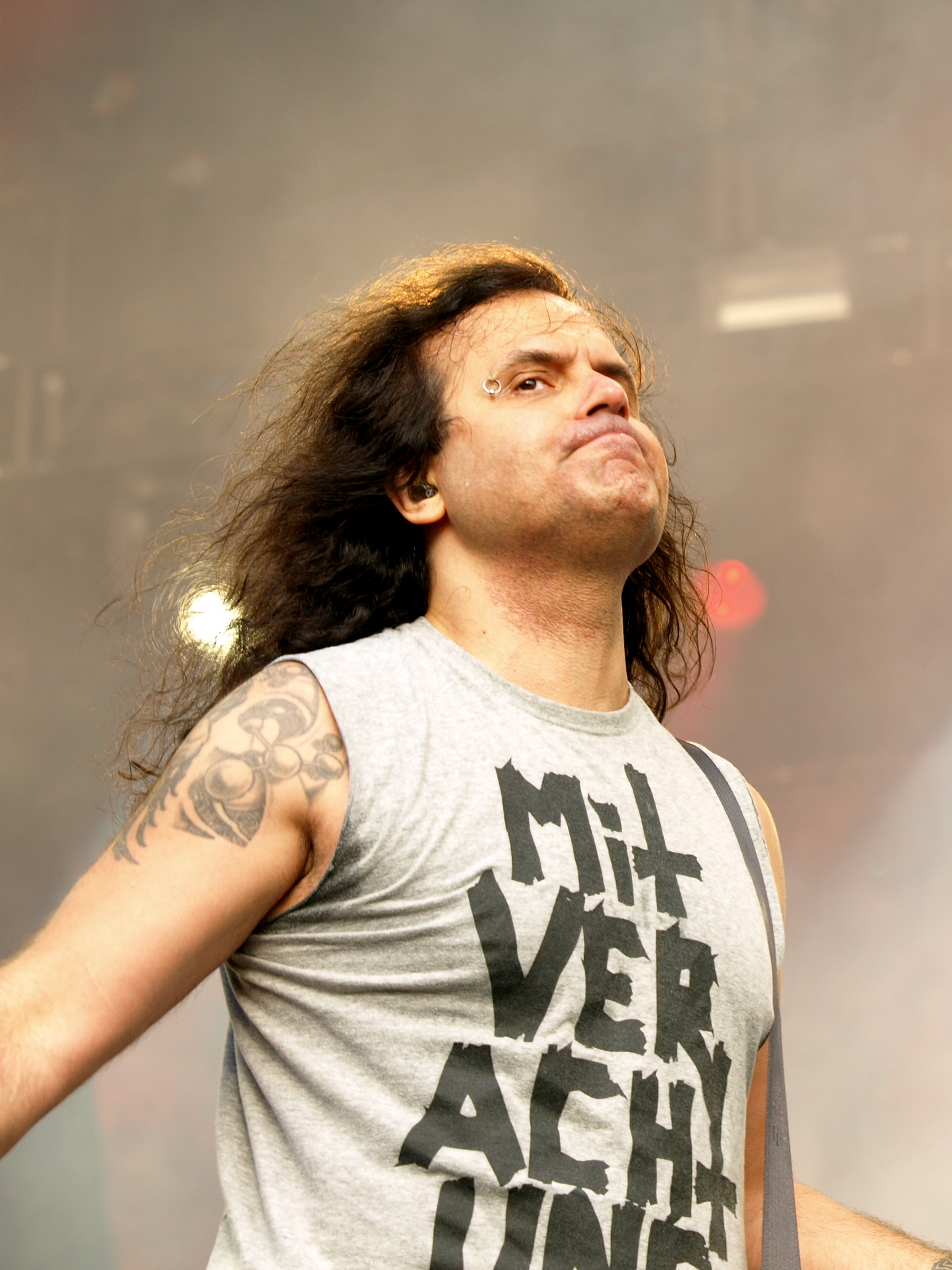 German thrash metal band Kreator live at Tuska Open Air 2013